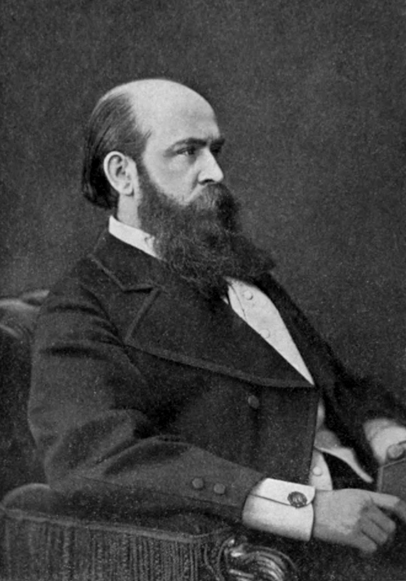 Russian writer Alexander Konstantinovich Sheller.